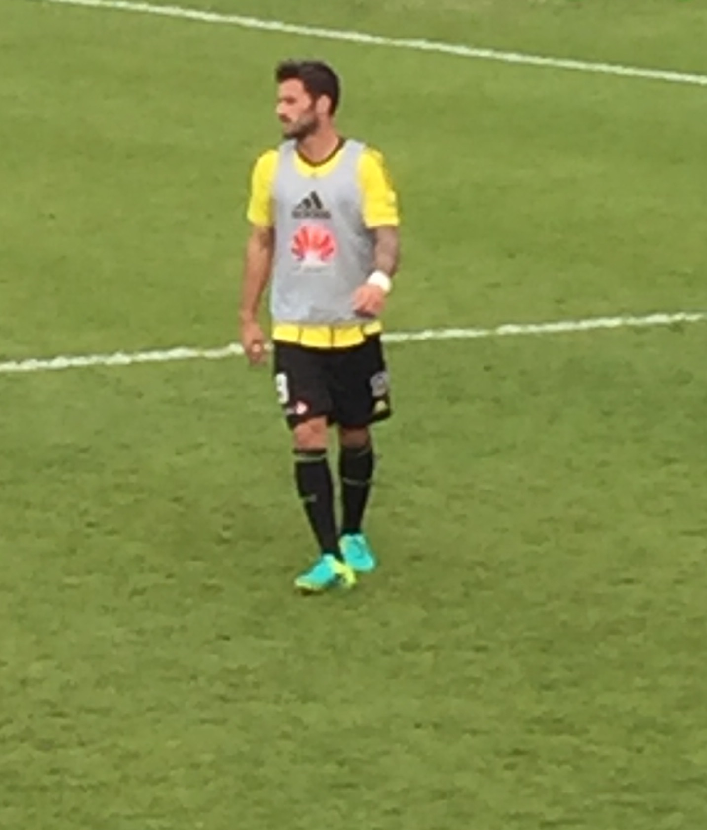 Tom Doyle playing for Wellington Phoenix against Central Coast Mariners at Knox Grammar School on 17 September 2016